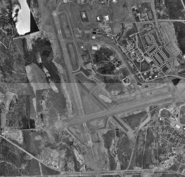 Aerial image of Northern Maine Regional Airport at Presque Isle (formerly Presque Isle Air Force Base) in Presque Isle, Maine, United States.